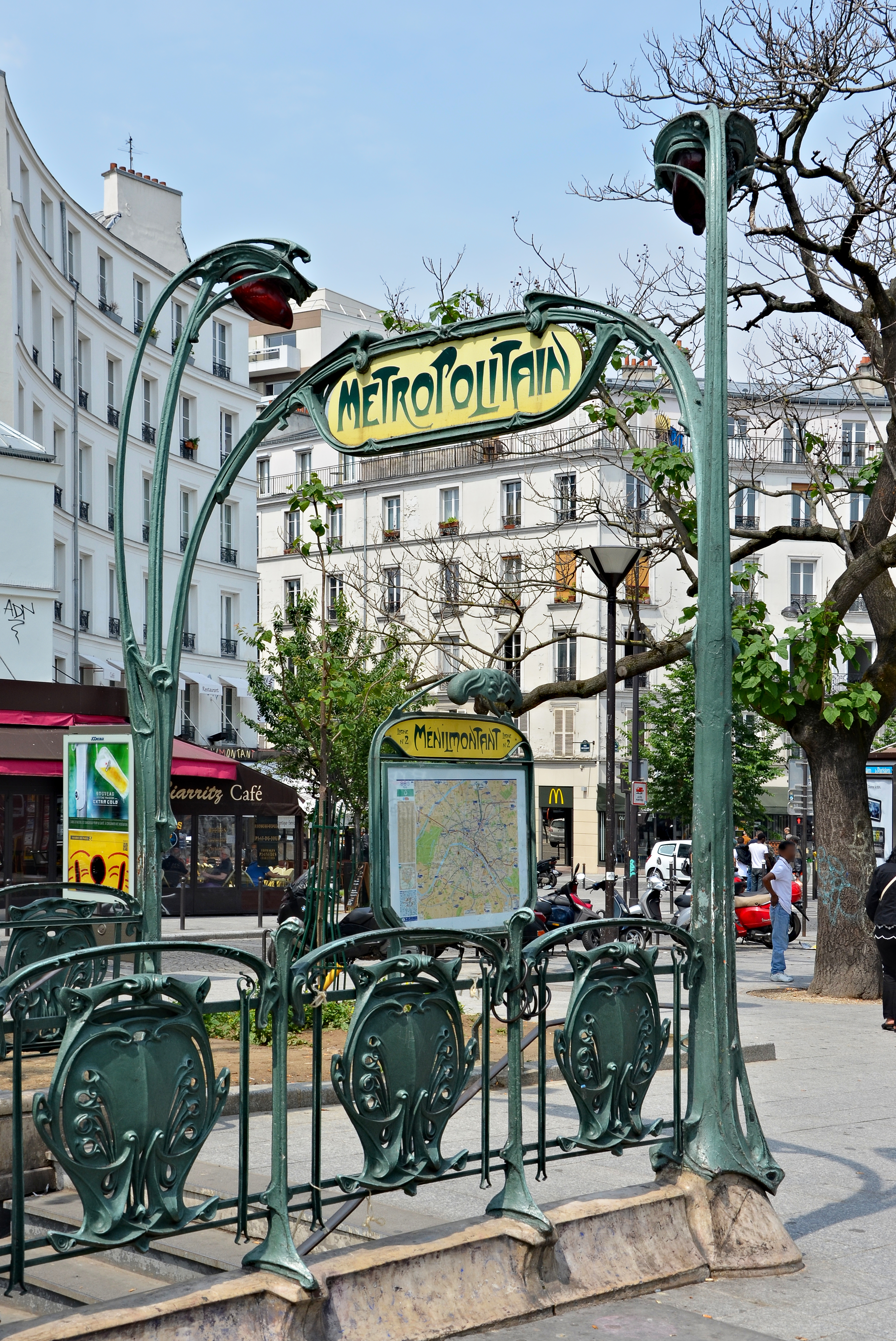 Entrance by Paul Guimard of métro Ménilmontant station (partial view), Paris, 20th arr., France. .